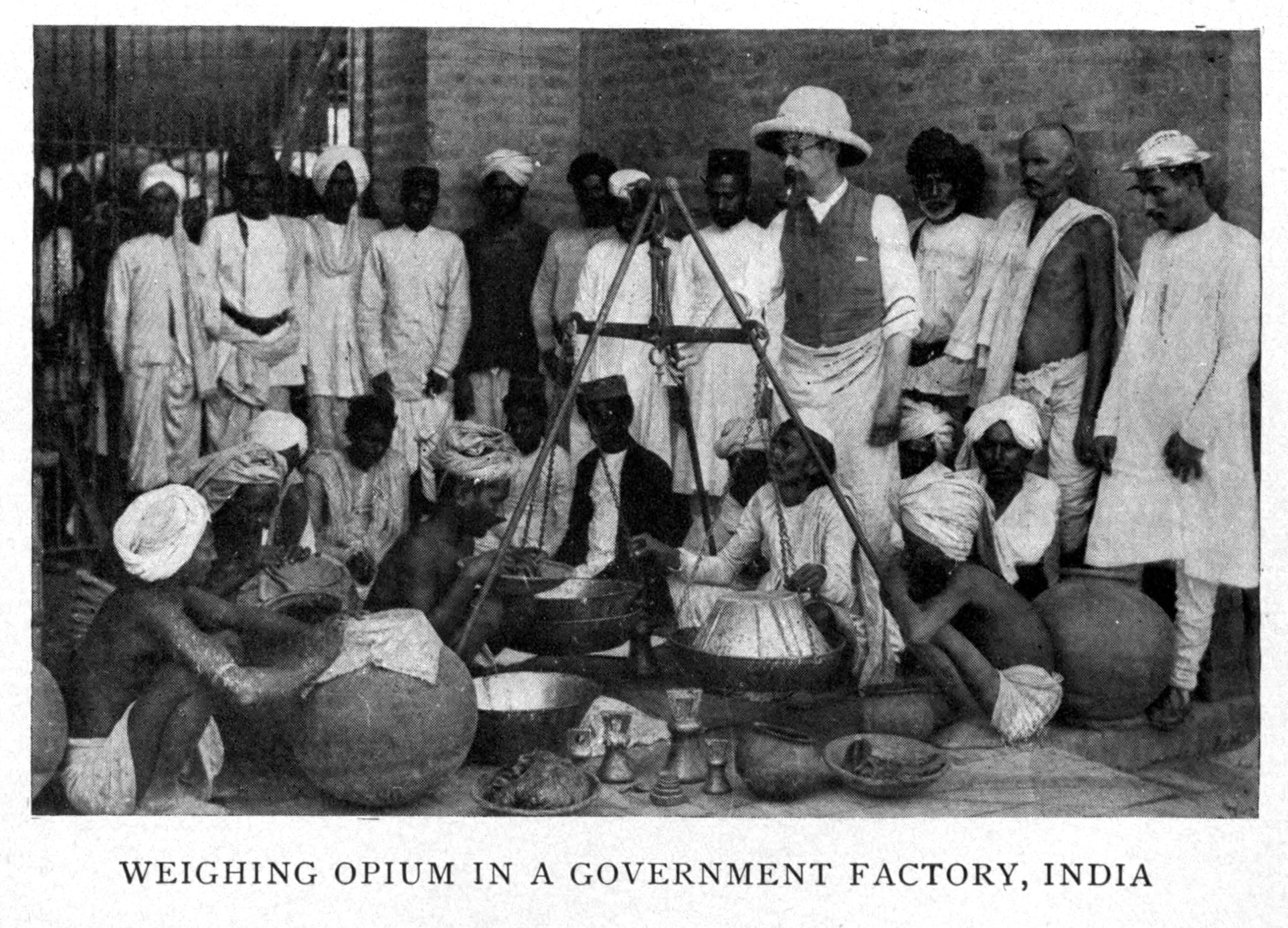 koerees, a class of opium cultivators weighing opium in an Indian factory